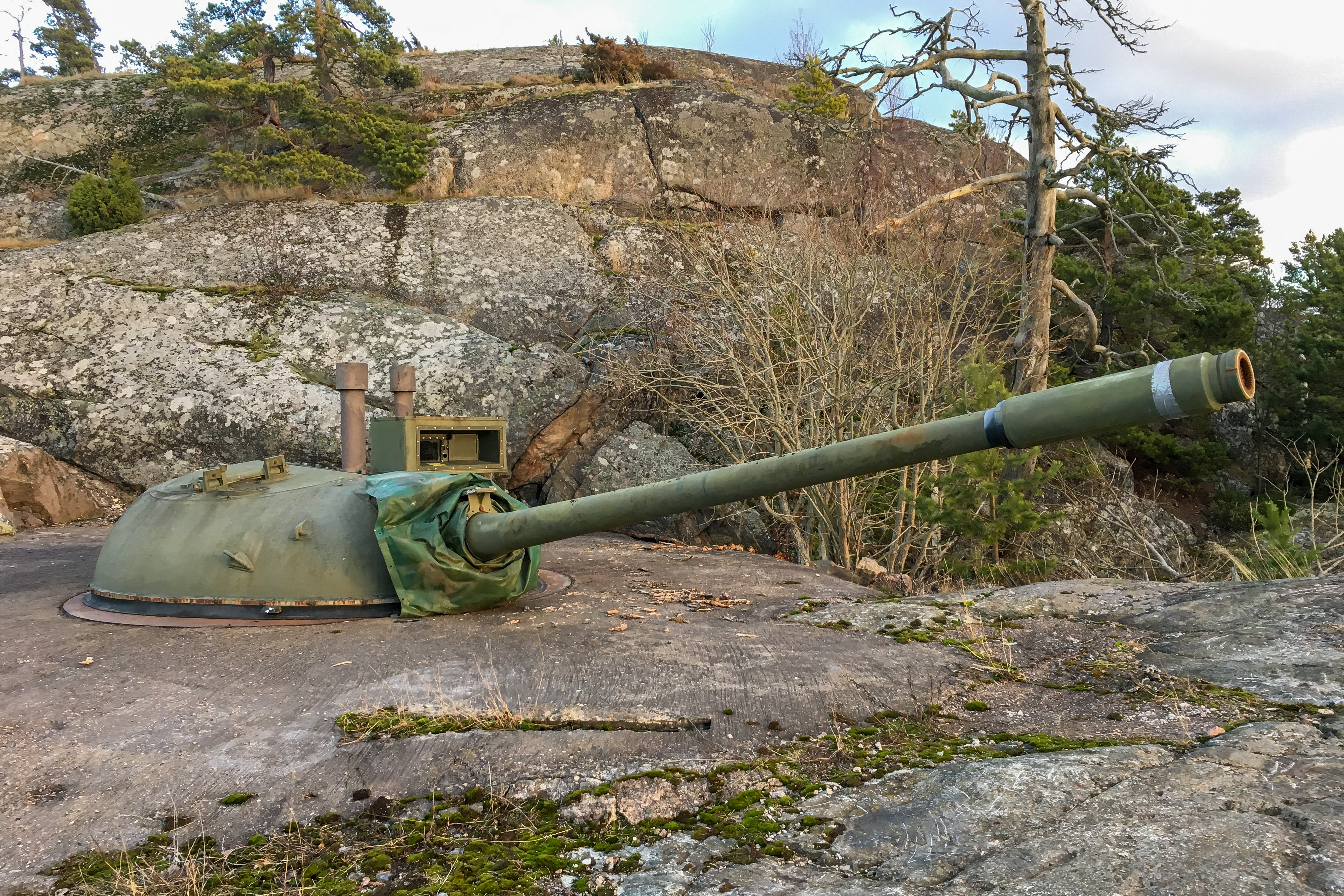 Deactivated 100 56 TK coastal gun in Upinniemi, Kirkkonummi, Finland. The gun used to be part of a four gun battery situated on the tip of the Upinniemi peninsula. The battery saw its last live fire excercise in 2012, and was dismanteled the same year. Picture's gun was later returned to its emplacement in December 2017.